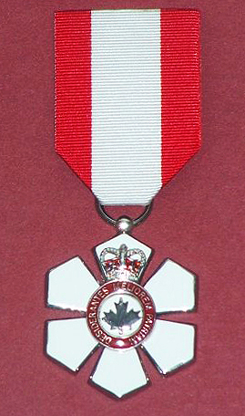 A replica of Father Maurice Proulx's Order of Canada Medal on display in the Musee Francois Pilot in La Pocatiere Quebec.